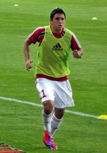 Gervasio Núñez